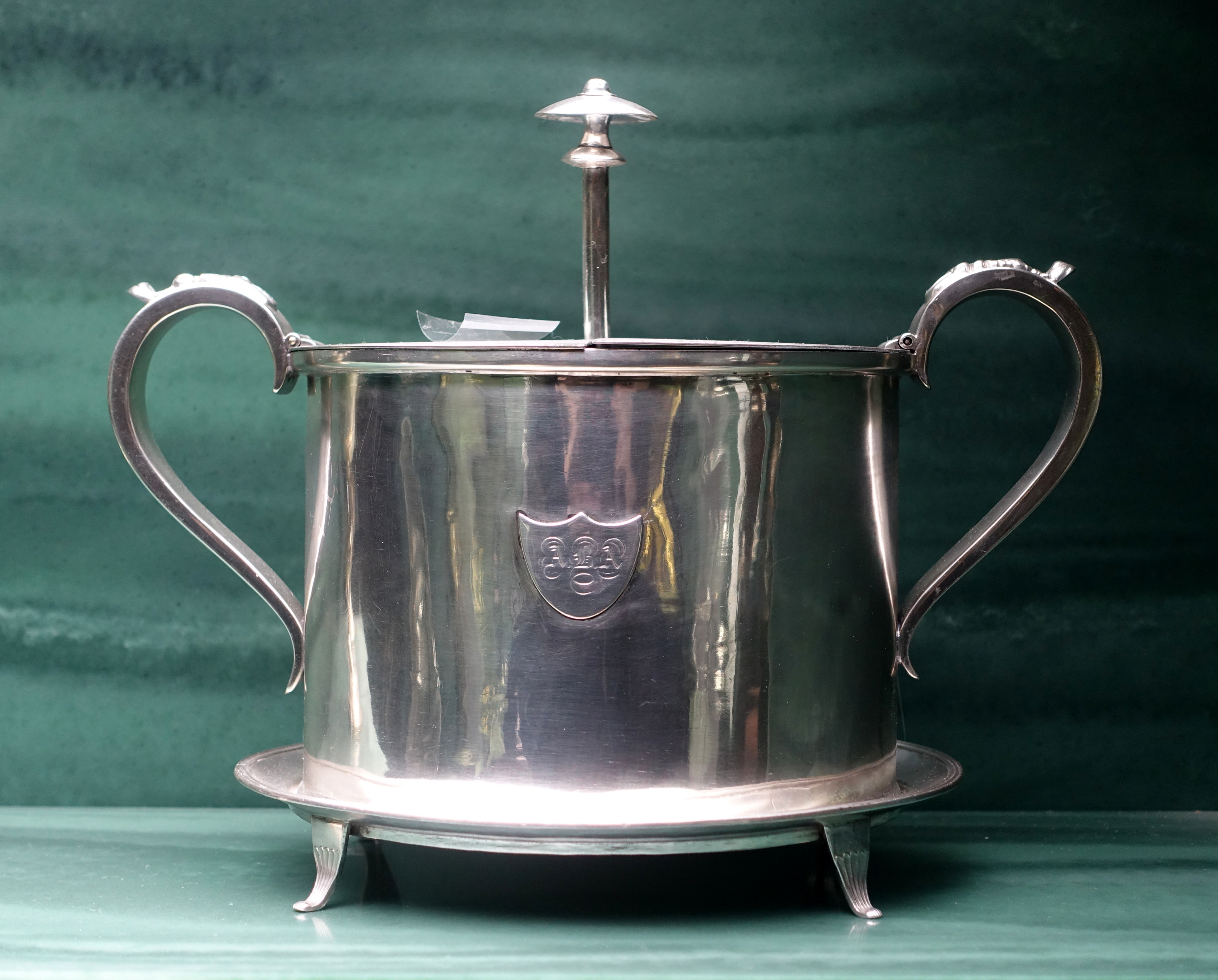 Exhibit in the Fowler Museum - University of California, Los Angeles - Los Angeles, California, USA.